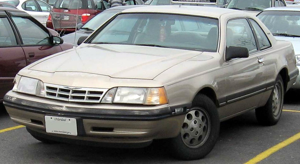 1983-1988 Ford Thunderbird photographed in USA.